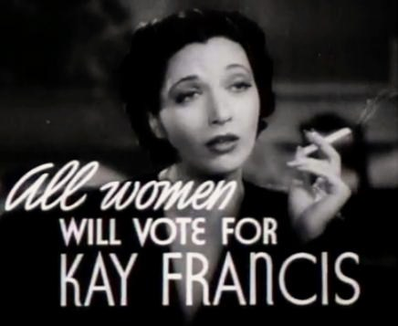 Kay Francis in First Lady - trailer (cropped screenshot)